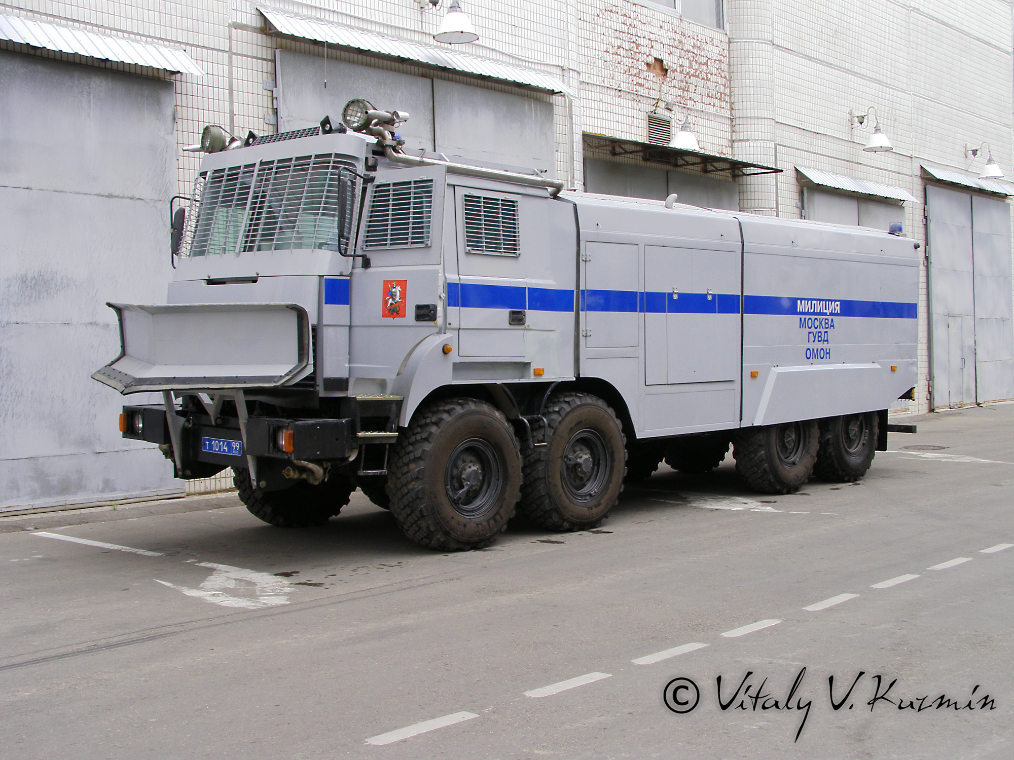 Moscow OMON antiriot vehicle "Lavina-Uragan"